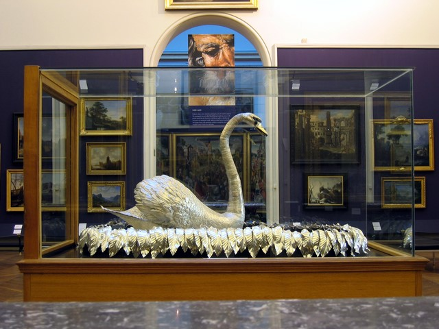 The Silver Swan, Bowes Museum A musical automaton and icon of the museum, the Silver Swan dates from 1774 and was purchased for the museum by John Bowes from a Parisian jeweller in 1872 for £200